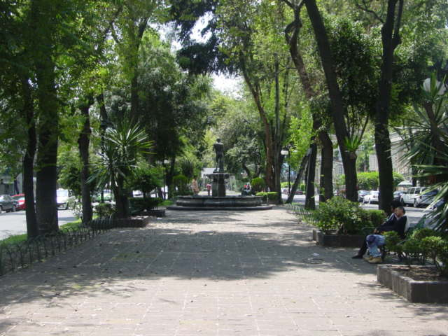 Alvaro Obregon av. Colonia Roma, Mexico City